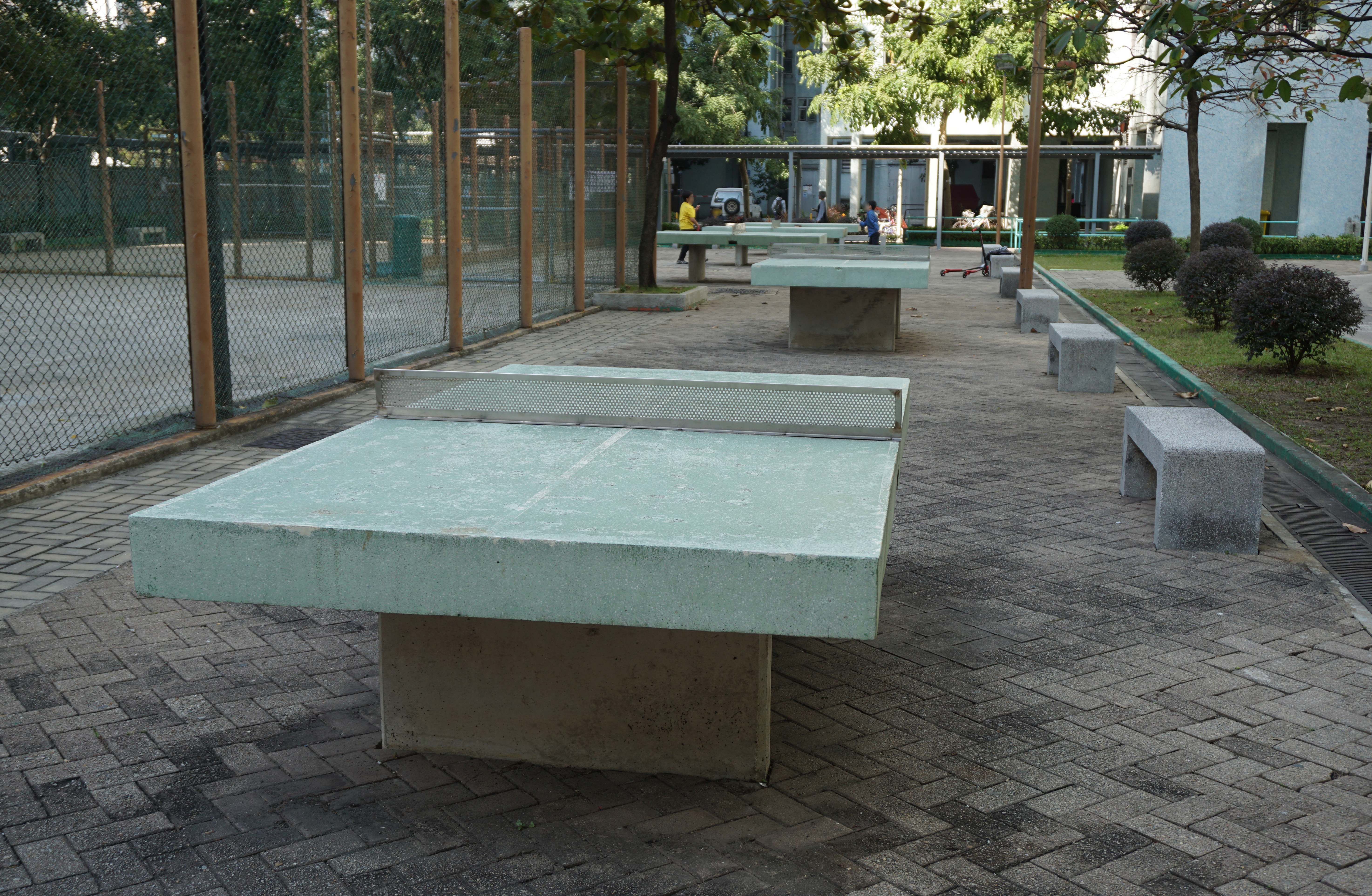 Yuet Wu Villa in Tuen Mun, Hong Kong.